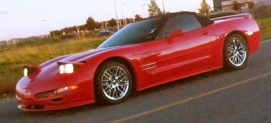 Chevrolet Corvette photographed in Laval, Quebec, Canada at Les chauds vendredis.